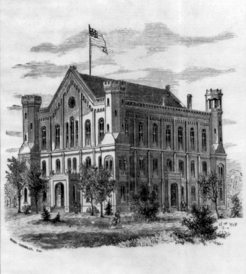 Lombard College building, Galesburg, Illinois. Illus. in: Catalogue of officers and students of Lombard University, June 1876